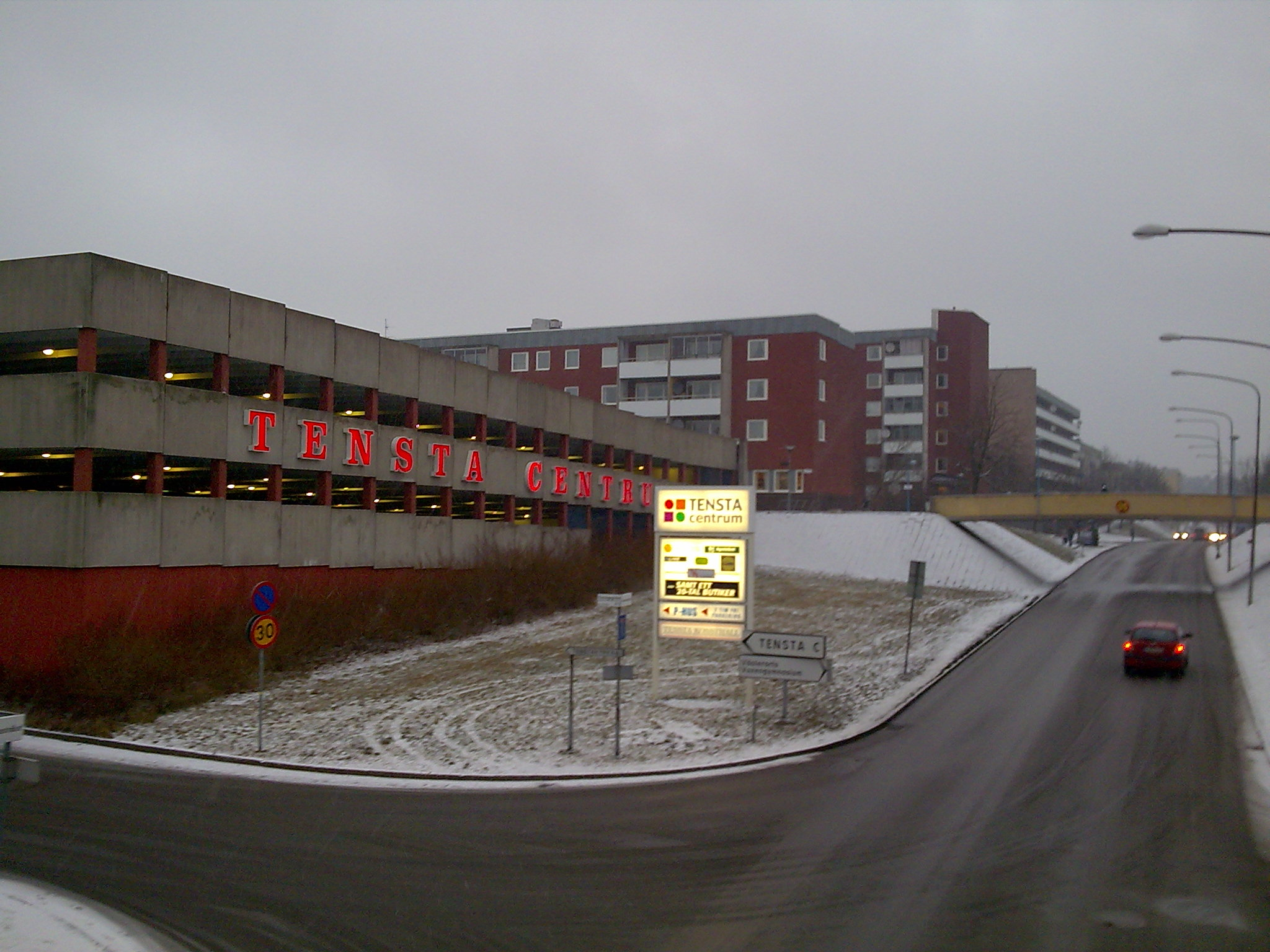 Tensta